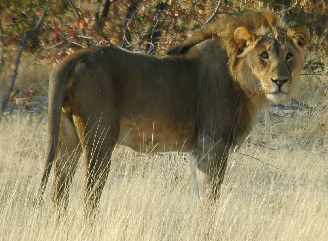 Namibie Etosha National Park Lion Photographie prise par GIRAUD Patrick